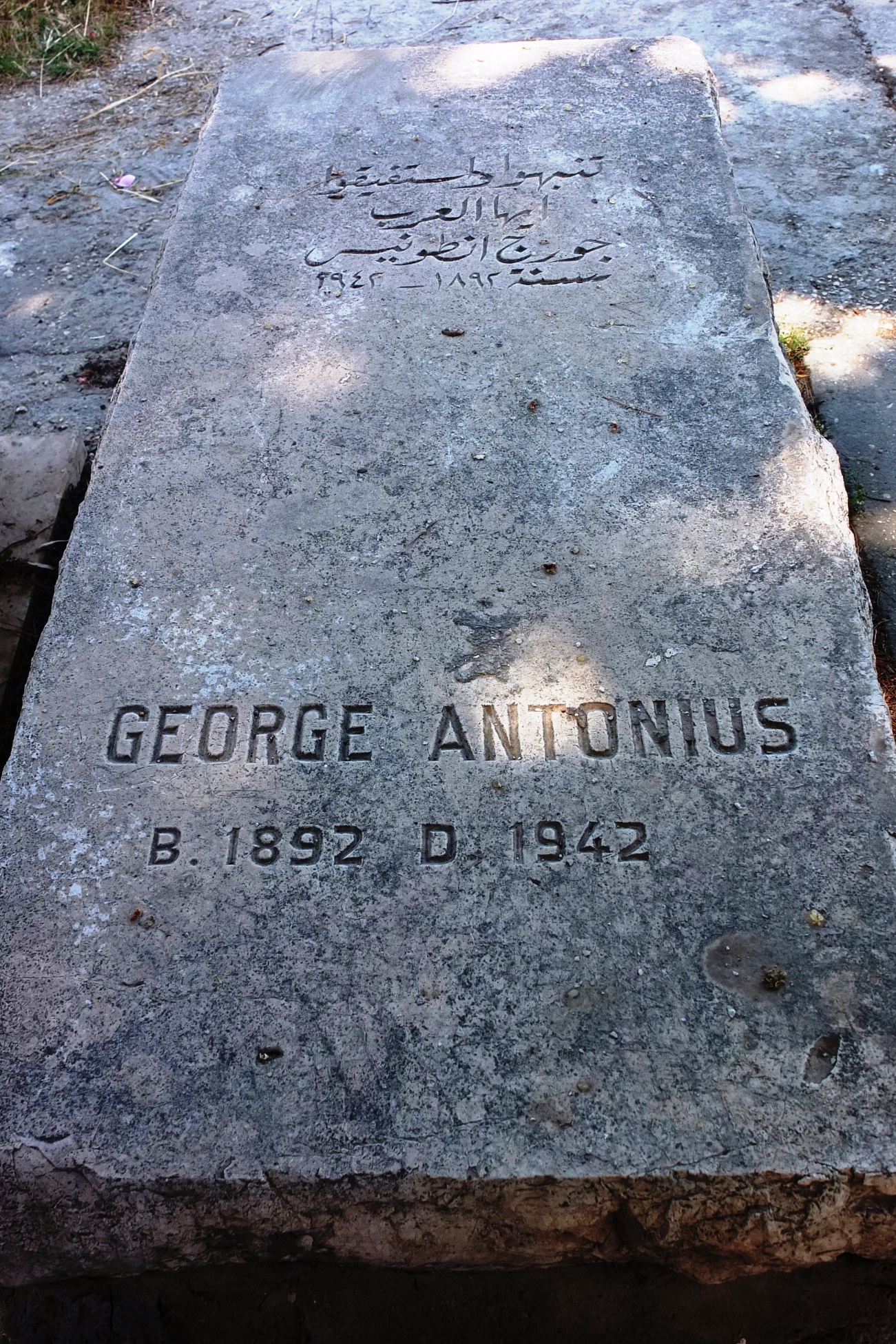 George Antonius grave